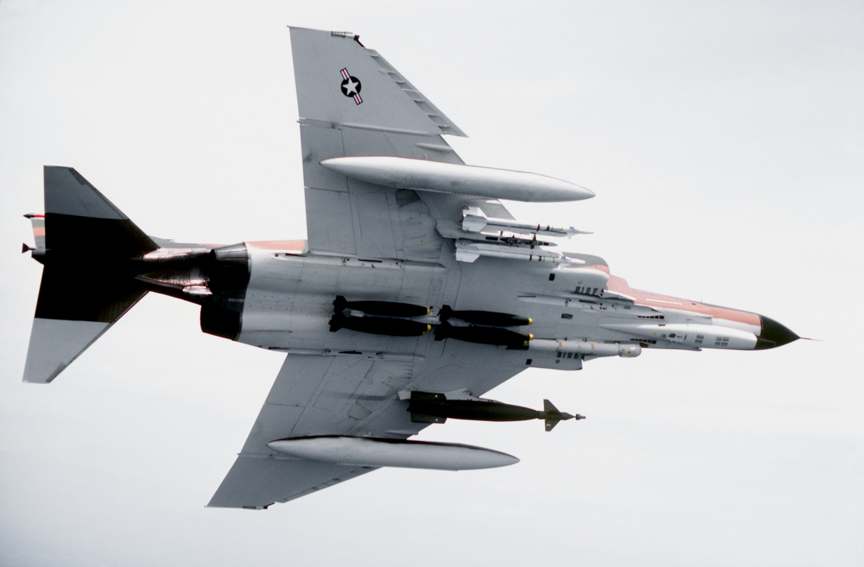 A U.S. Air Force McDonnell F-4E Phantom II assigned to the 347th Tactical Fighter Wing in flight at Nellis Air Force Base, Nevada (USA), on 1 May 1980. It carries auxiliary fuel tanks on each wing and two AIM-9J Sidewinder missiles are mounted on the right wing, a GBU-16 Paveway II bomb is carried under the left wing. A Pave Spike airborne laser designator is mounted on the left side of the fuselage and six Mk 82 227 kg low-drag bombs on the centerline.